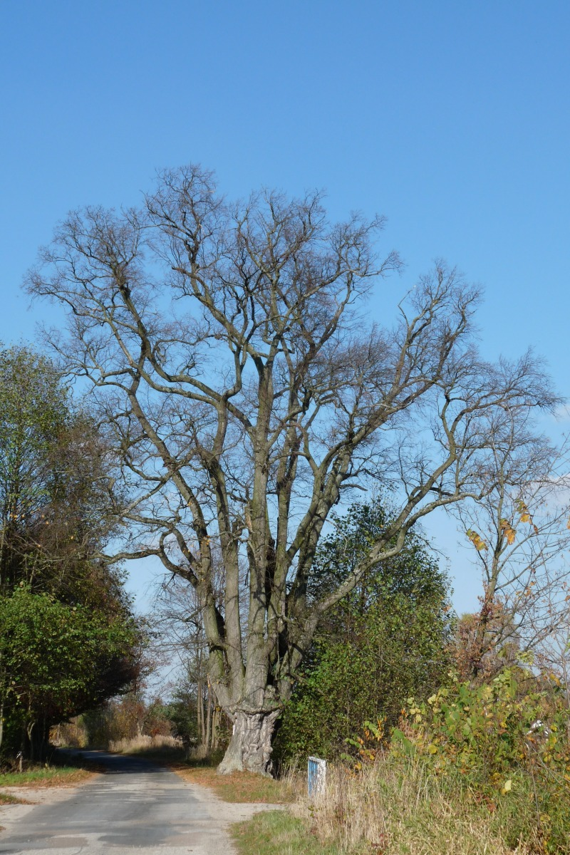 Elm tree